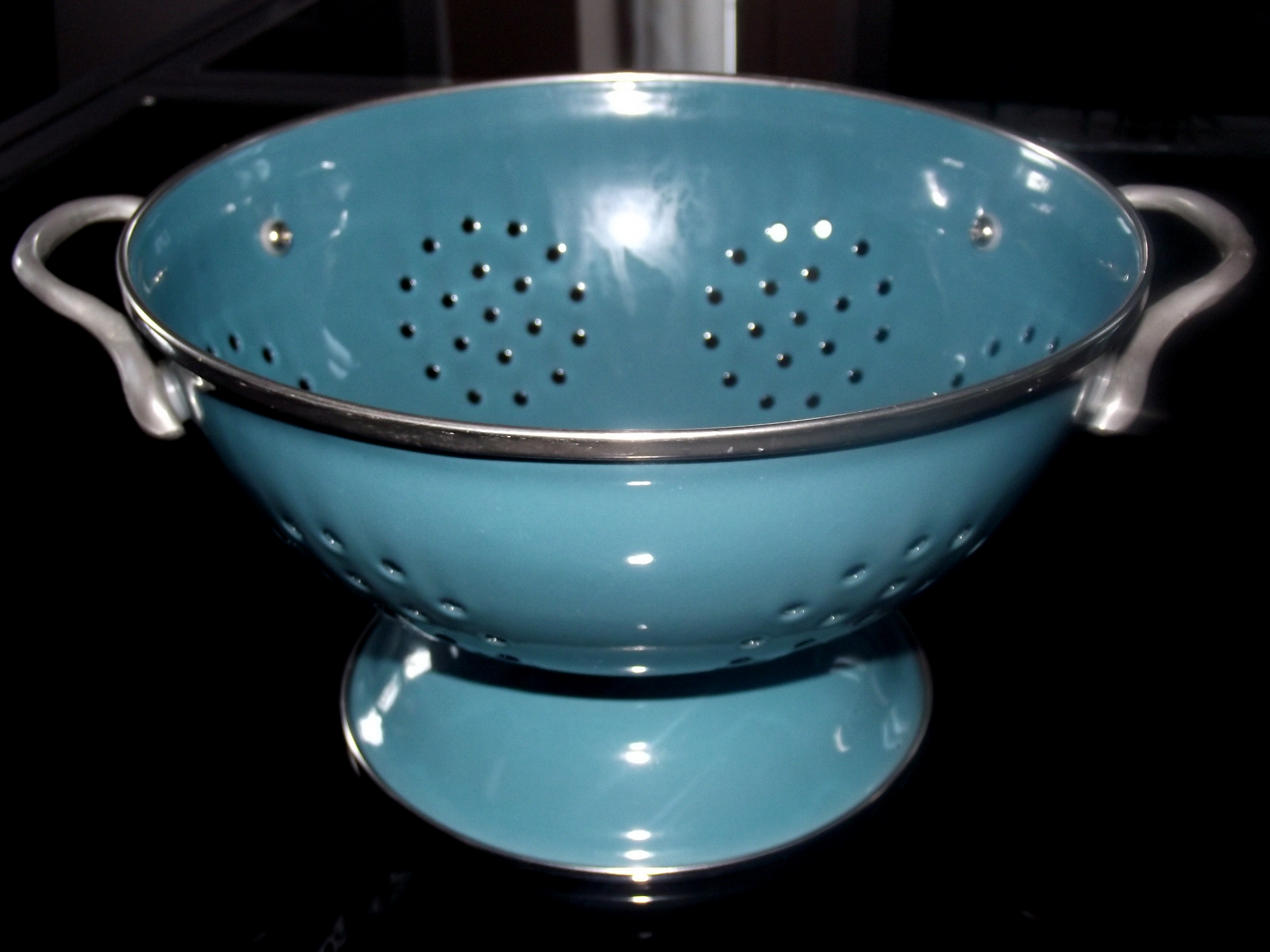 Colander